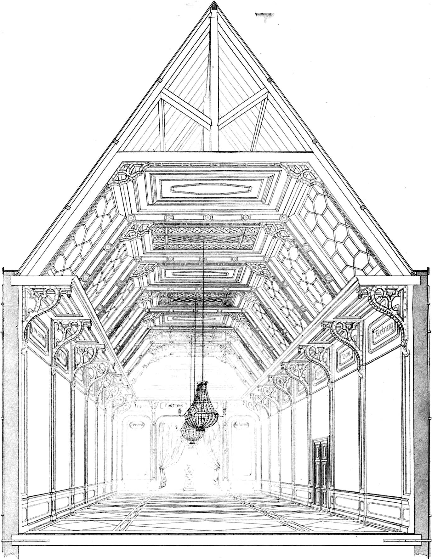 M.G. Tétar van Elven. Exhibition room, Arti et Amicitiae, Rokin, Amsterdam. 1841.